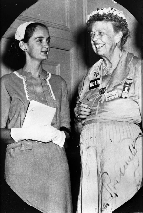 Roxcy Bolton with Mrs. Franklin D. Roosevelt. For three decades, Roxcy Bolton was Florida's leading women's rights activist.